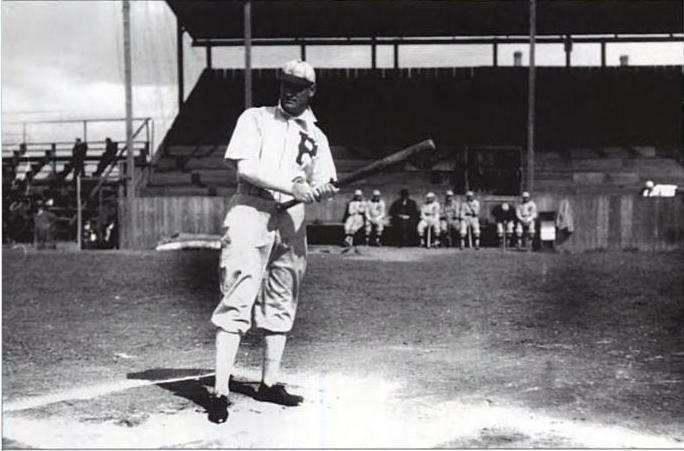 Walt McCredie, former player/manager for the Portland Beavers.